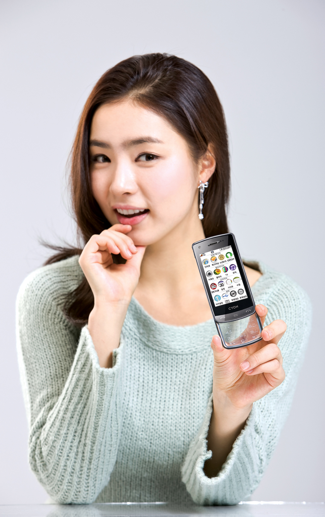 LG Electronics Krystal phone(LG-KU9600) with Shin Se-kyeong